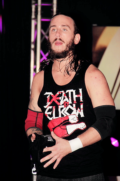 JT Dunn